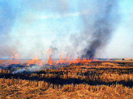 autumn burn.